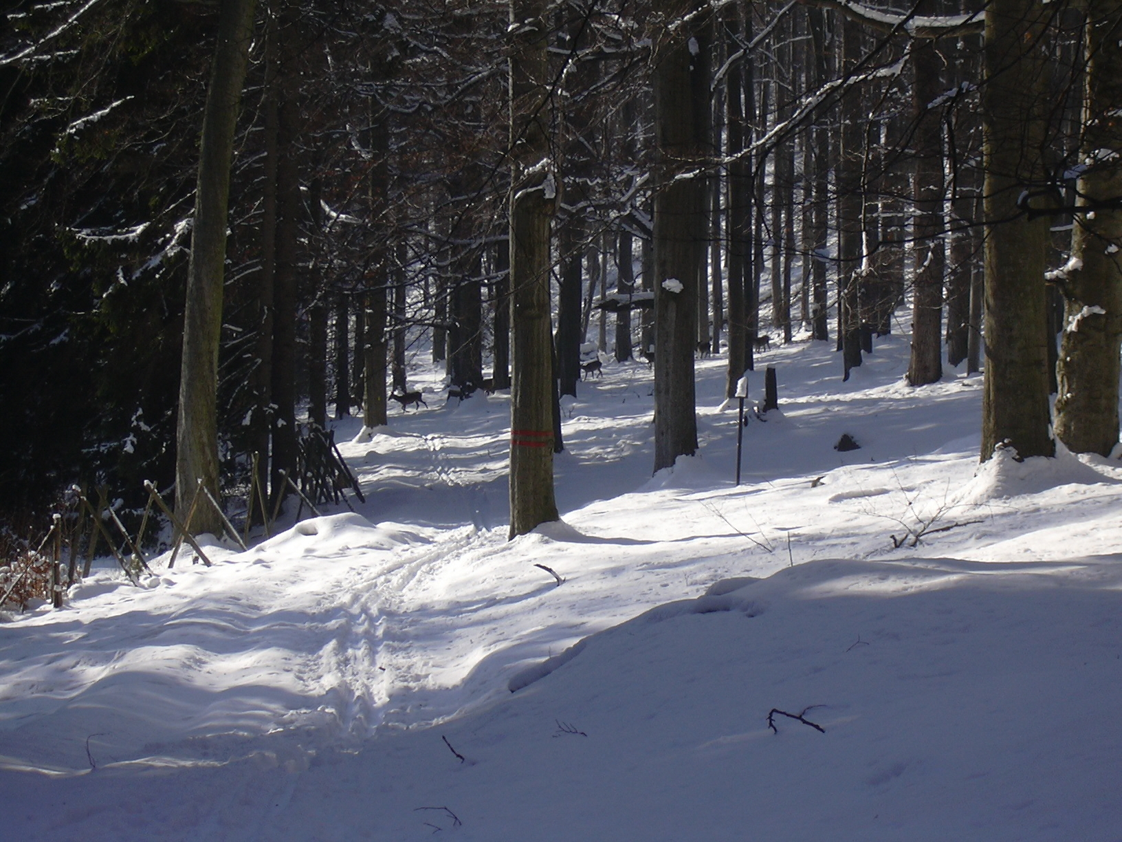 old Beech wood near the hill Hradec, Brdy